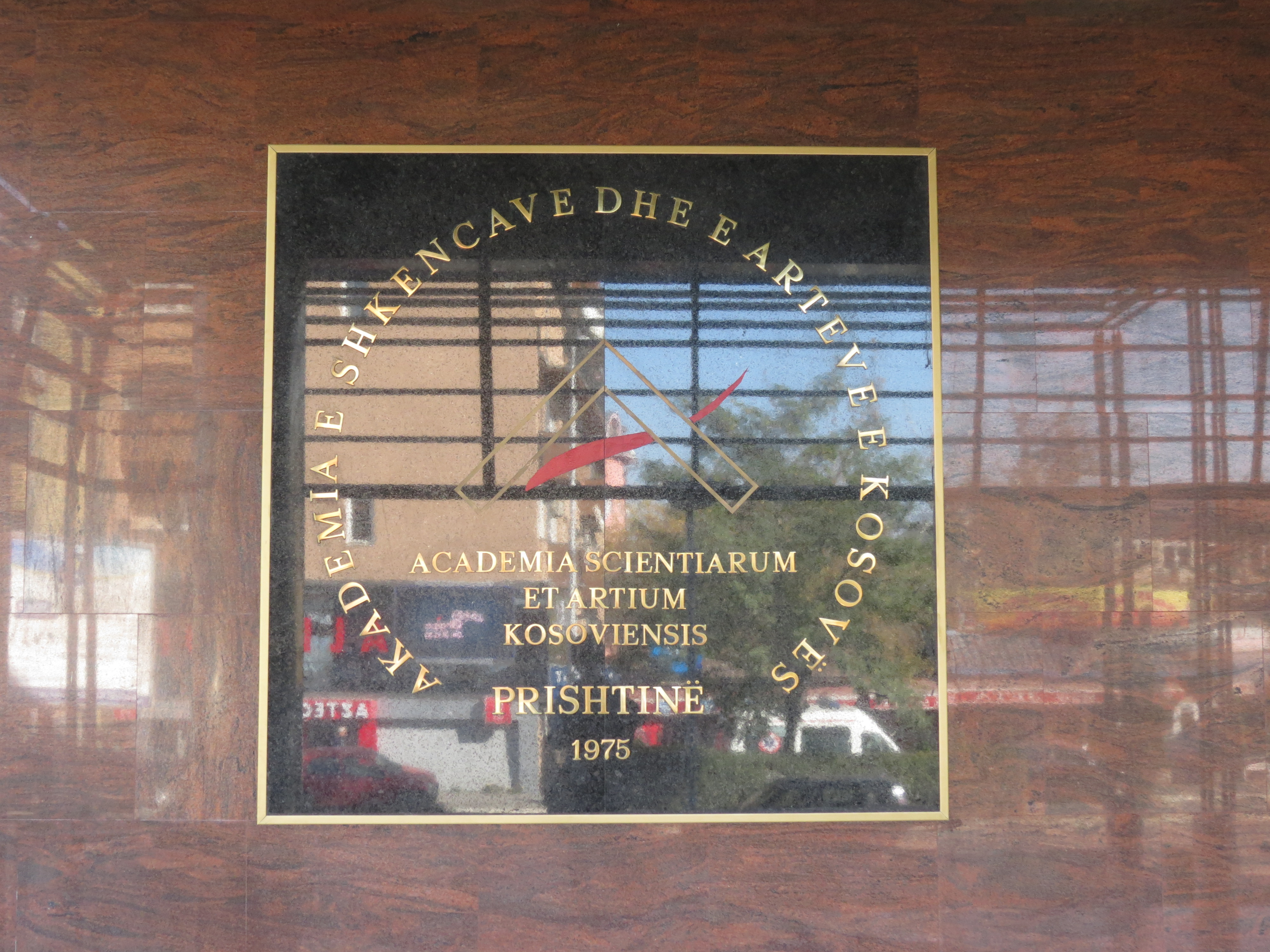 Sign at the entrance of the Academy of Sciences and Arts of Kosovo (Akademia e Shkencave dhe e Arteve e Kosovës - ASHAK) in Agim Ramadani Street (Rr. St. Ul. Agim Ramadani) in Pristina, capital of the Republic of Kosovo.